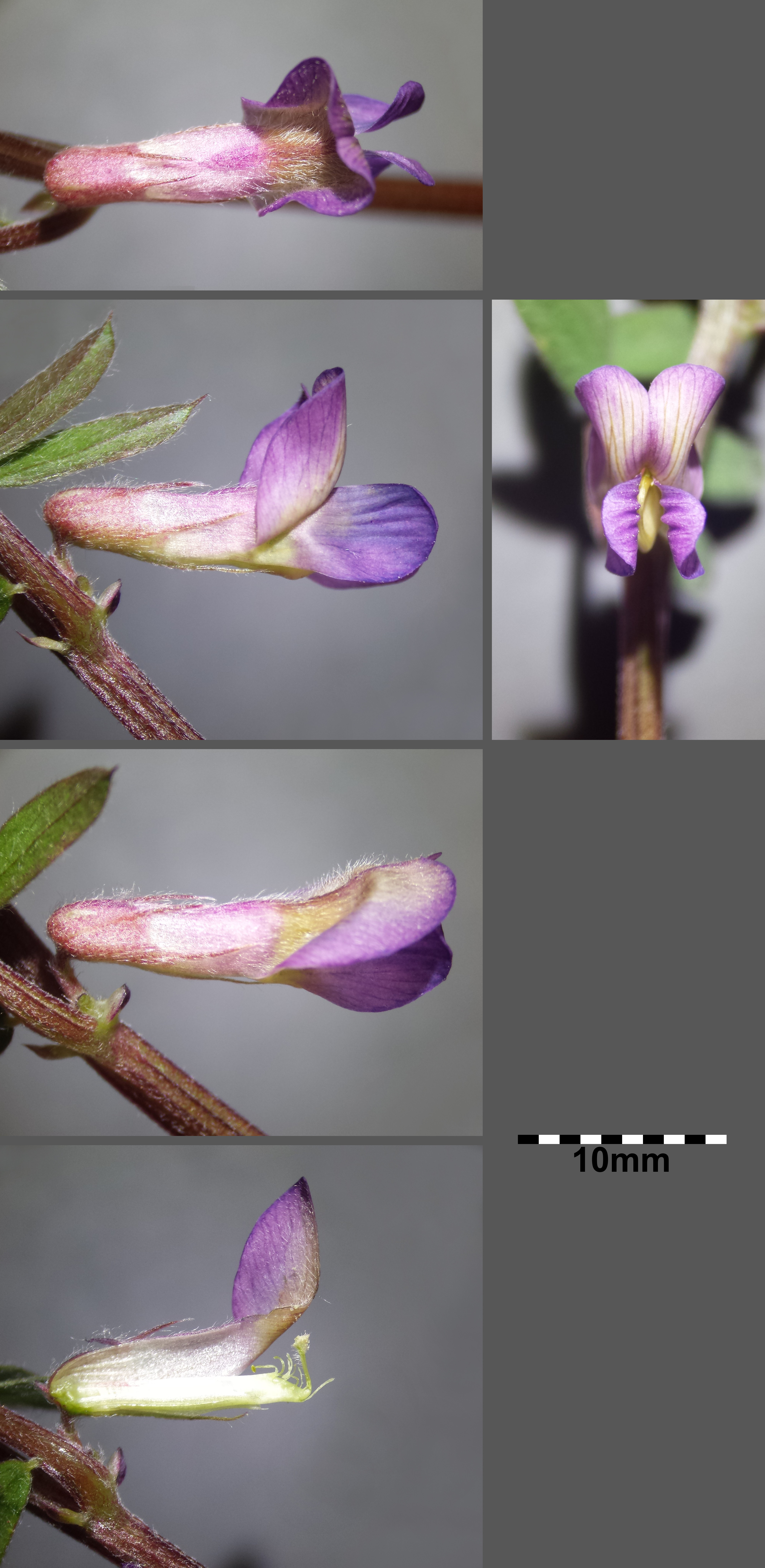 Flower, the banner is hairy at its outer side Taxonym: Vicia pannonica subsp. striata ss Fischer et al. EfÖLS 2008 ISBN 978-3-85474-187-9 Location: near Marchfeldkanal near Groß-Jedlersdorf, Vienna-Floridsdorf - ca. 160 m a.s.l. Habitat: fallow land